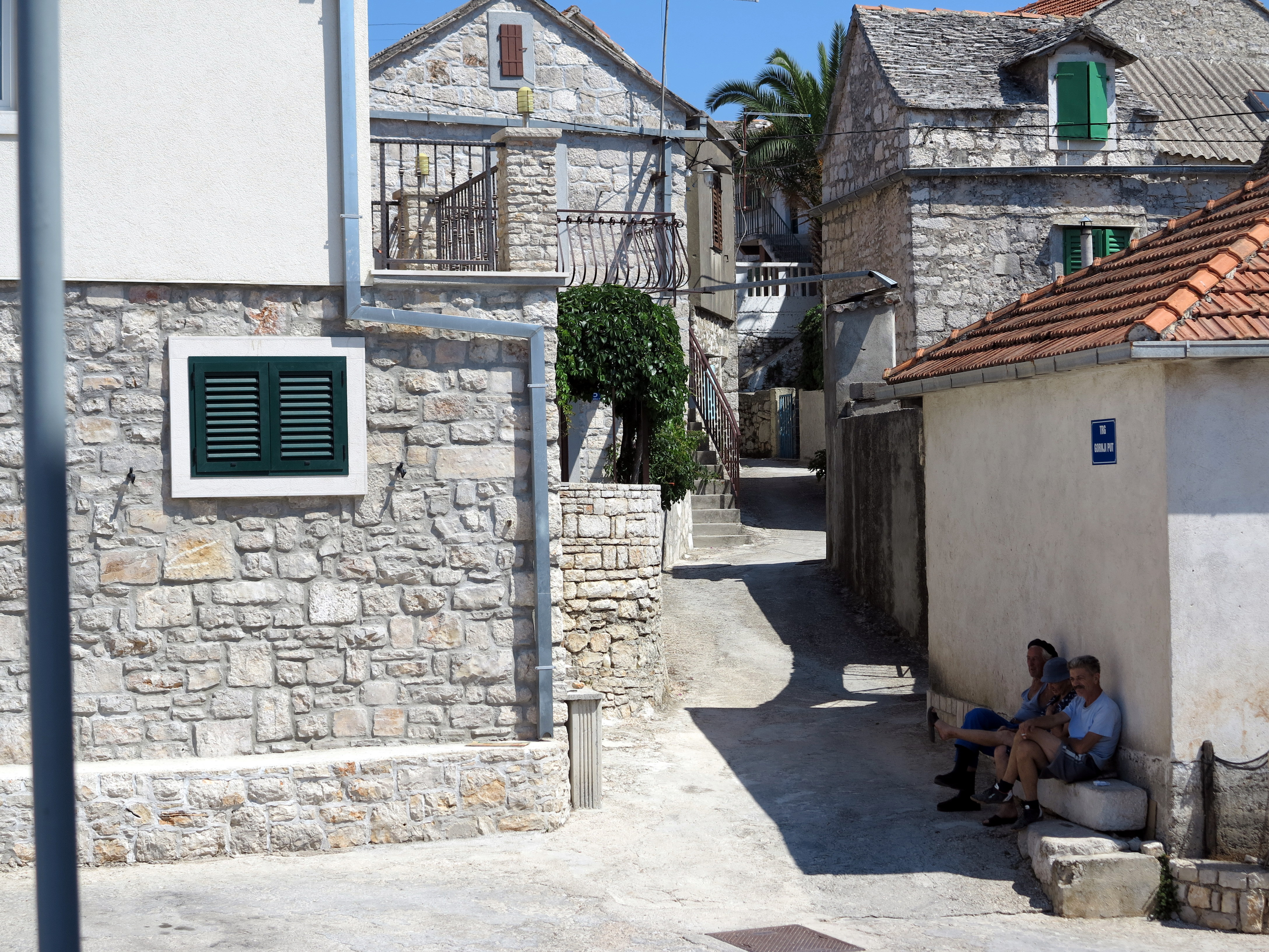 Donje Selo on the island Šolta / Croatia / Adriatic Sea. Narrow streets in the village.